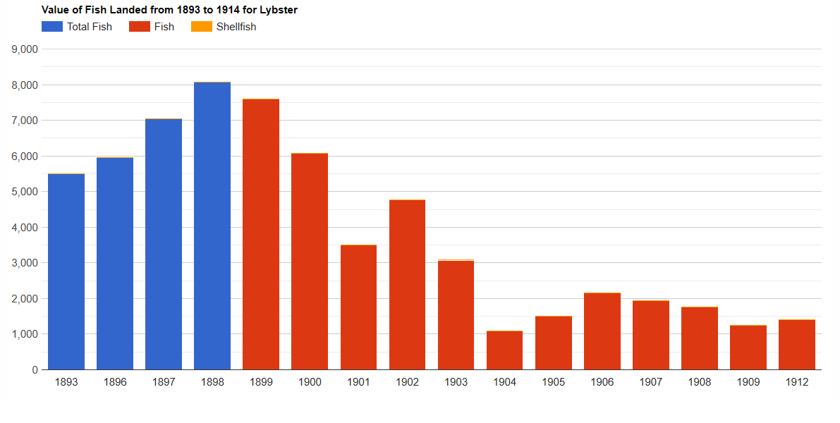 Value of fish landed in Lybster between 1893 and 1914.